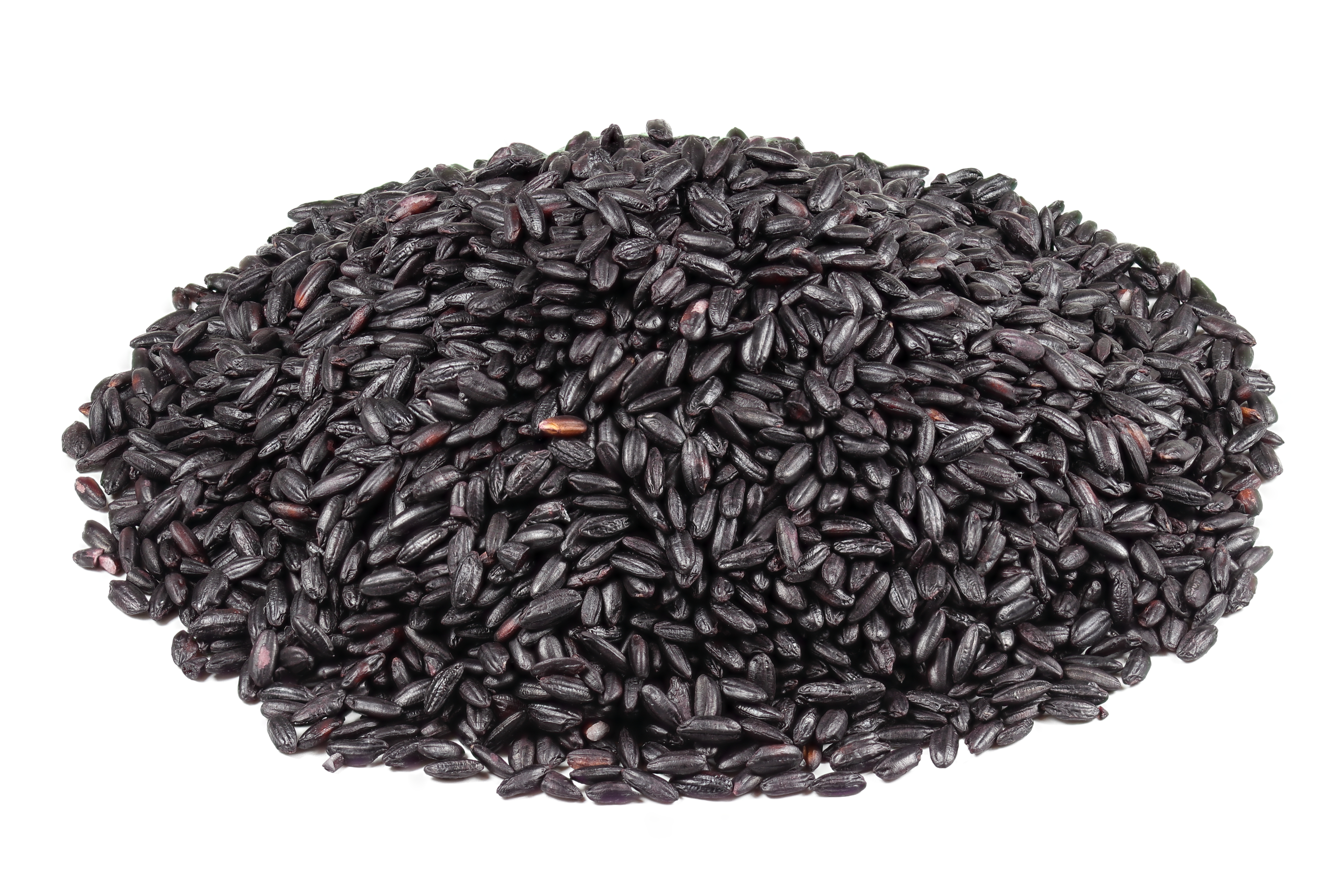 Picture of Black Rice